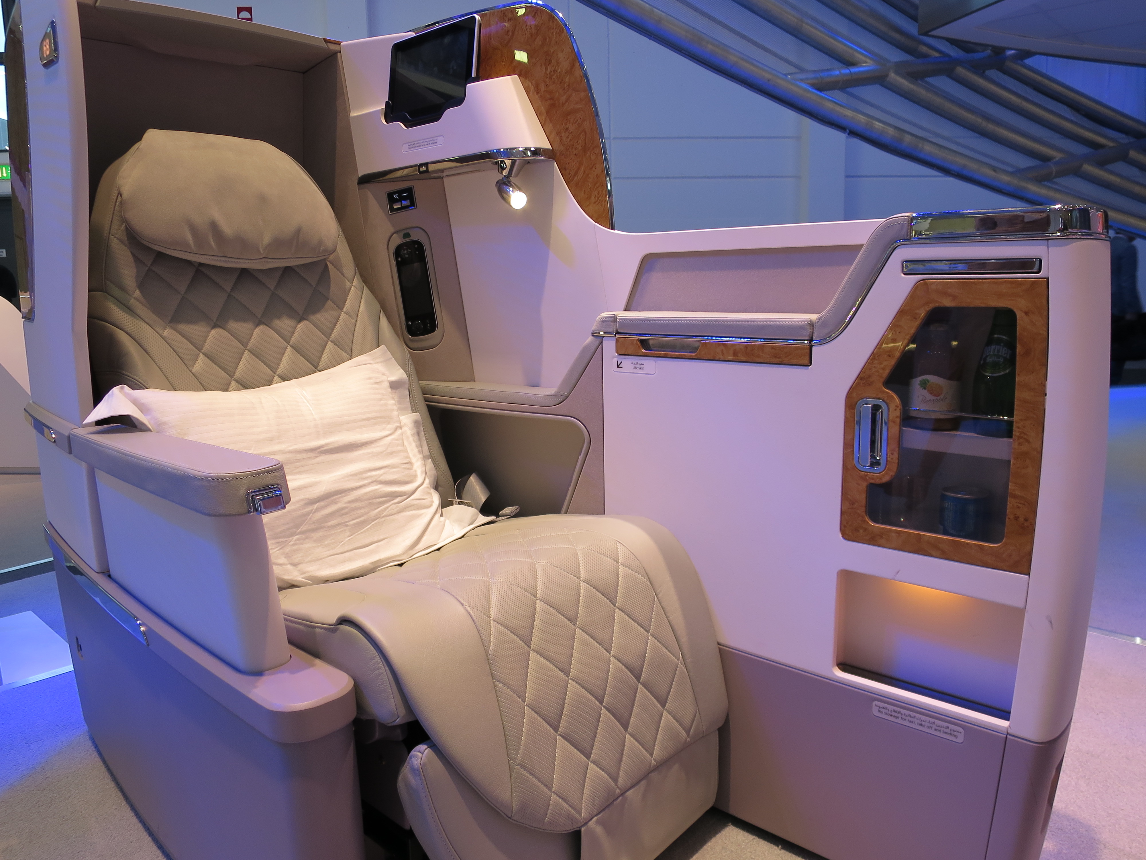 Emirates B777-300 Business Class.